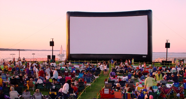 Outdoor movie nights with an inflatable movie screen